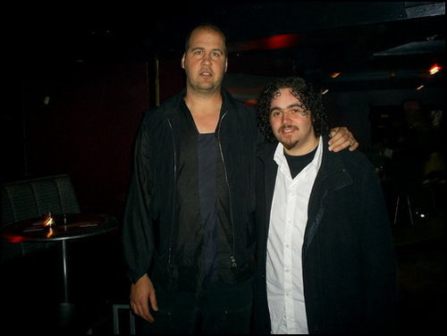 Krist Novoselic, Johndude1321 took the photo